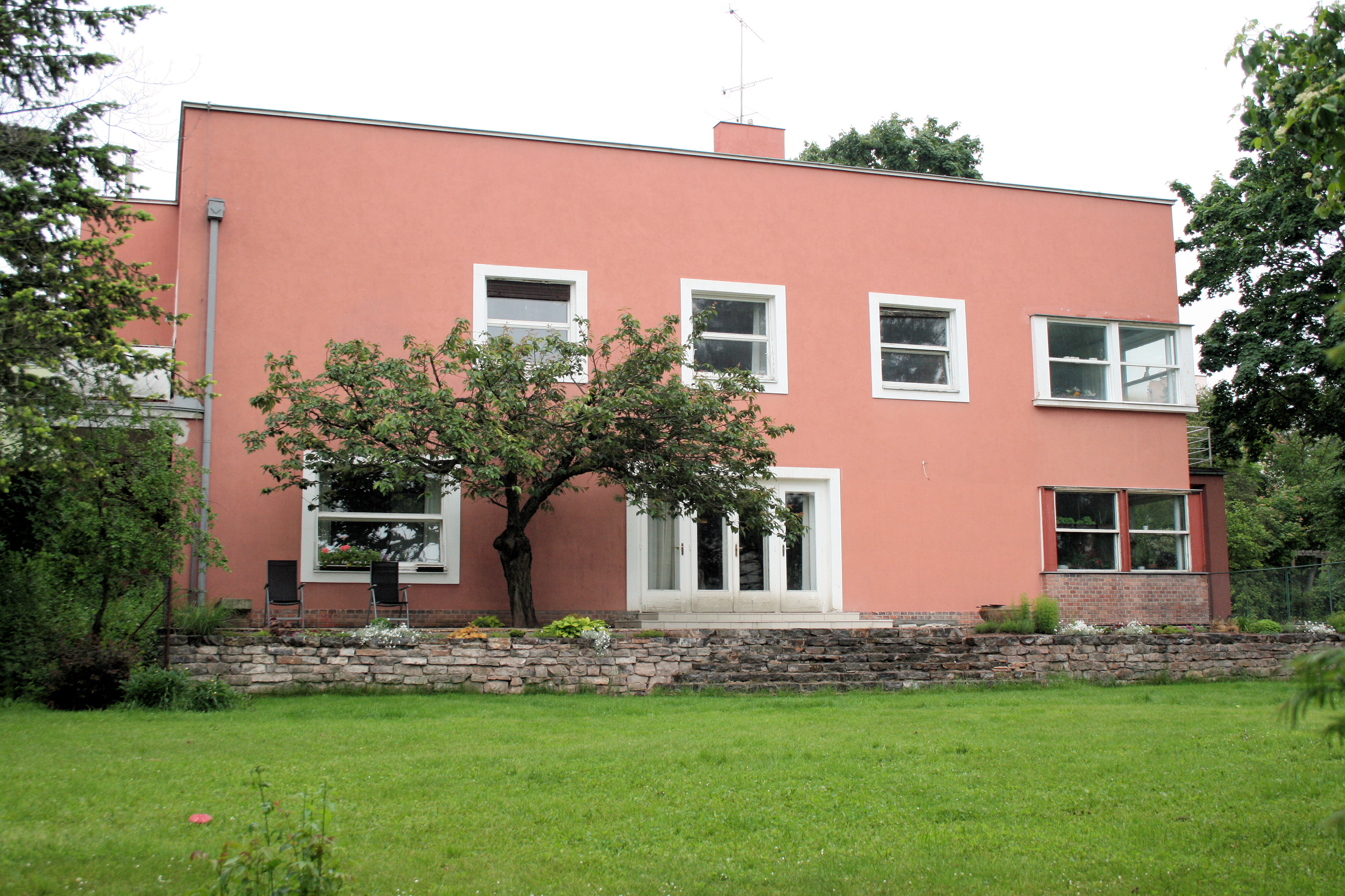 Villa Neumark in Brno, Czech Republic. Functionalist building by Ernest Wiesner.